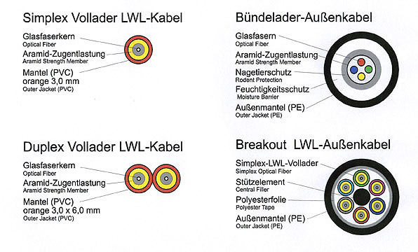 Composition of HCS-fiber and fiber glass